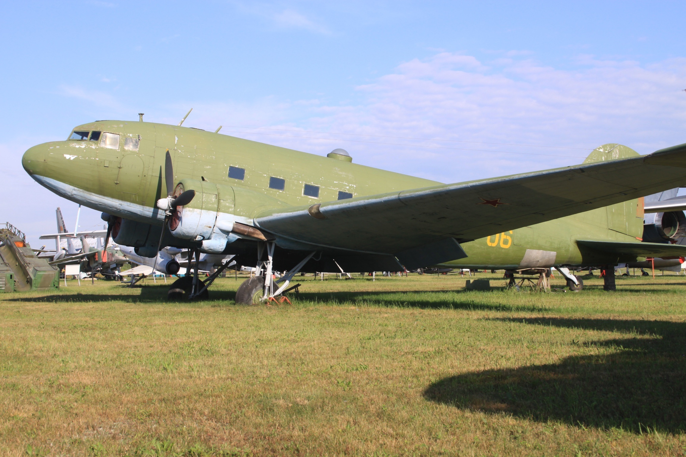 At Monino Museum